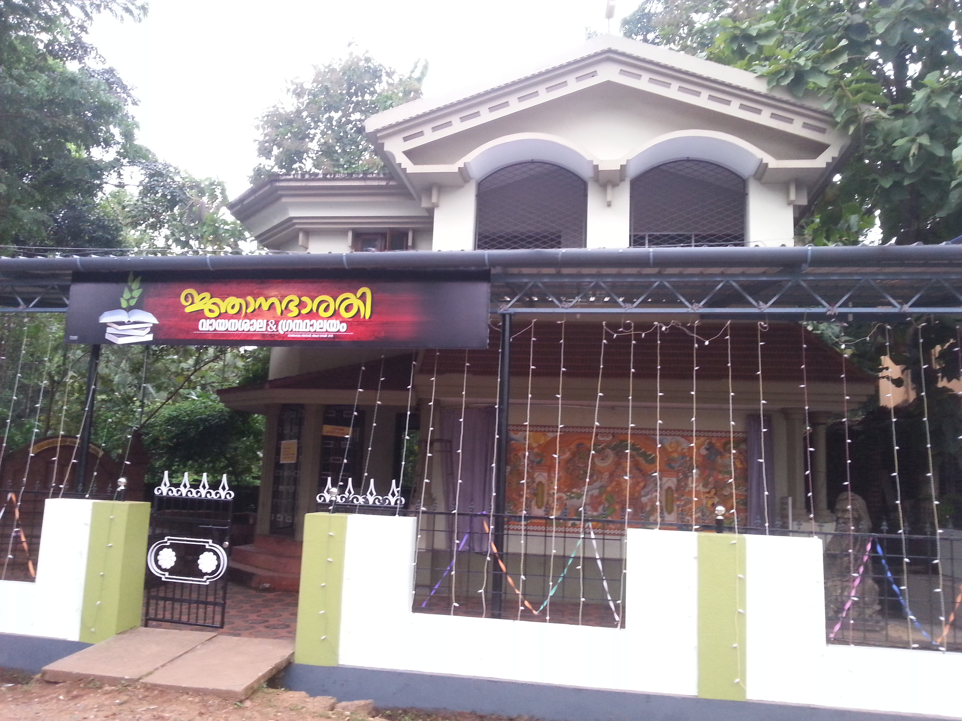 jnanabharathi,library,mathamangalam